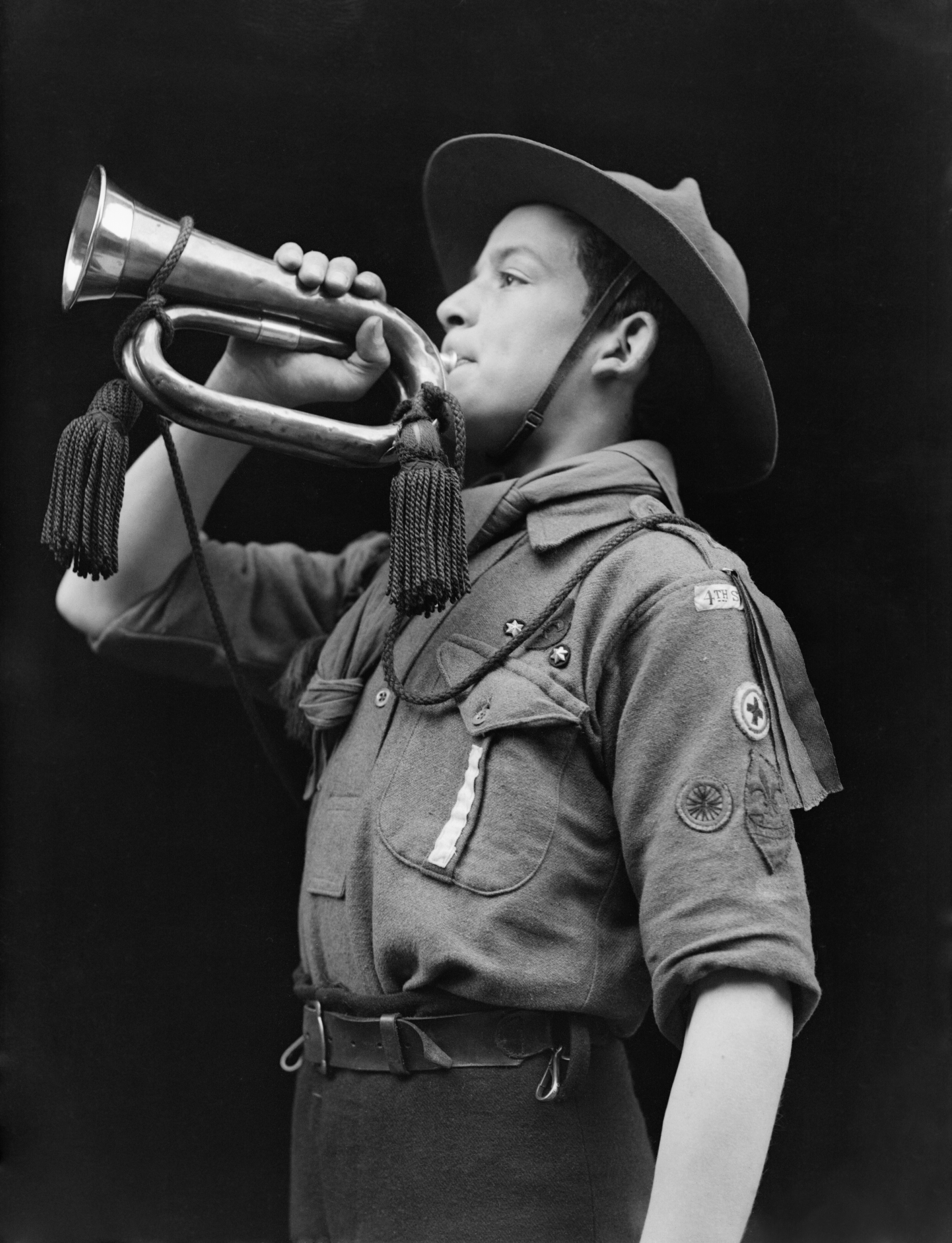 The Boy Scouts Association in Britain, 1914-1918 A portrait of a boy scout bugler as he sounds the 'all clear' after an air raid.